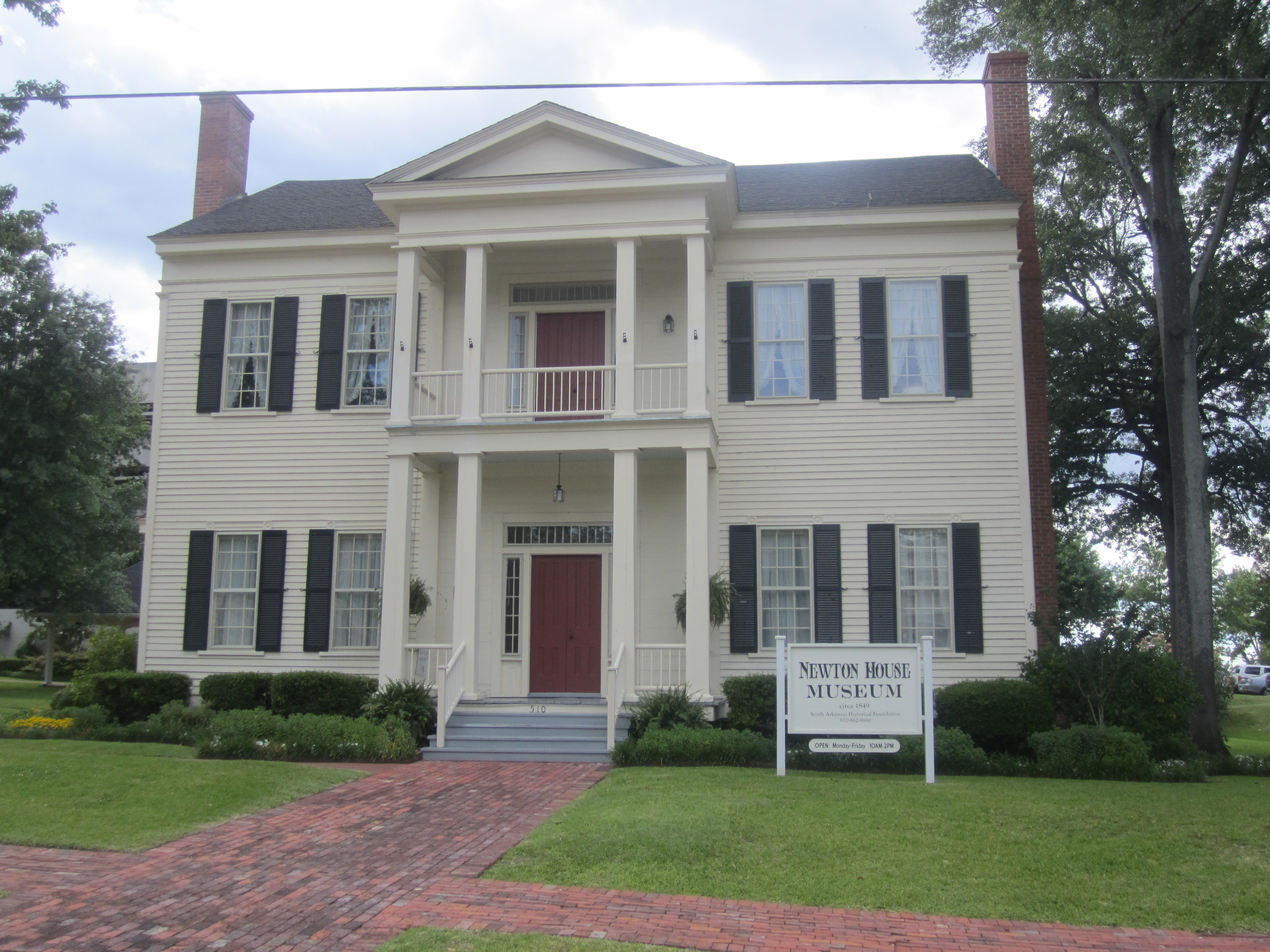 I took photo with Canon camera in El Dorado, AR, of Newton House Museum near the downtown.